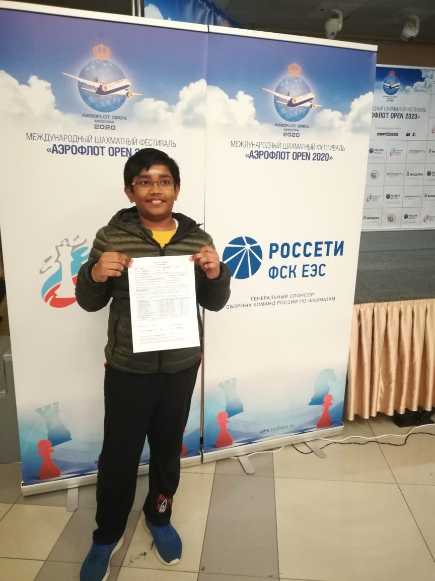 IM Bharath Subramaniyam with his Maiden GrandMaster Norm Certificate at Aeroflot Open 2020, Moscow